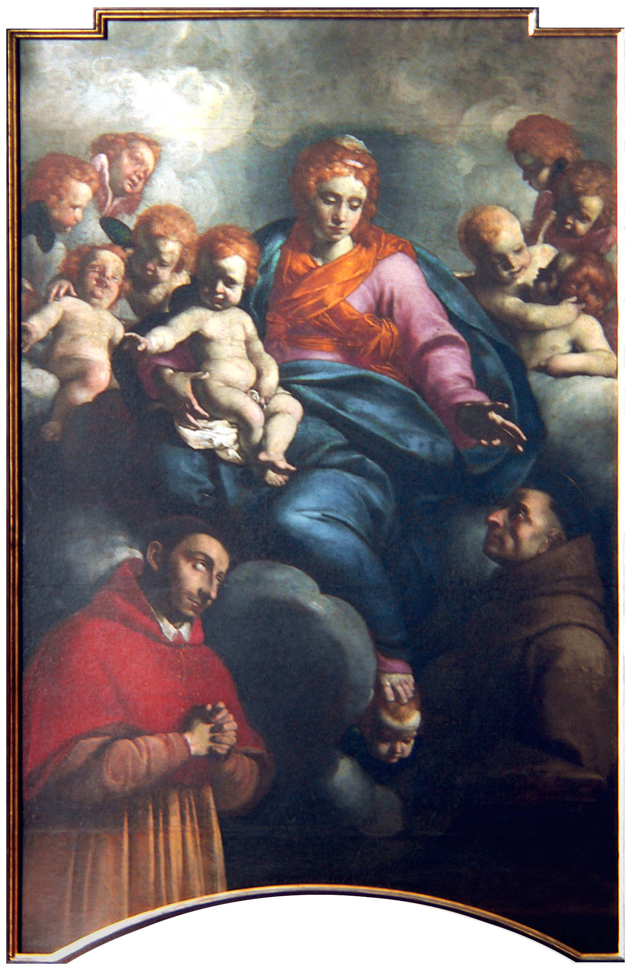 Painting by Carlo Ceresa "Madonna vom Siege" (17th century) in the Church St. Dionysius Neckarsulm, Germany